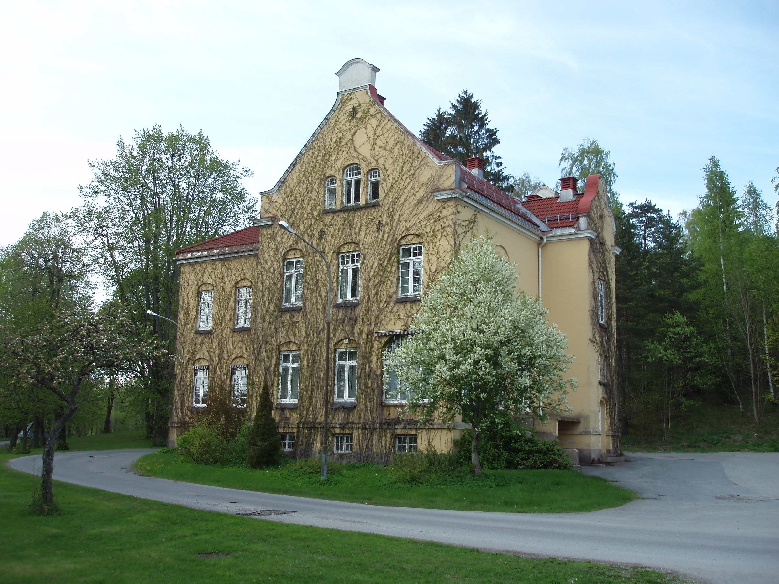 The building called "Kurhus 1" at Dikermark Hospital in Asker in Norway.